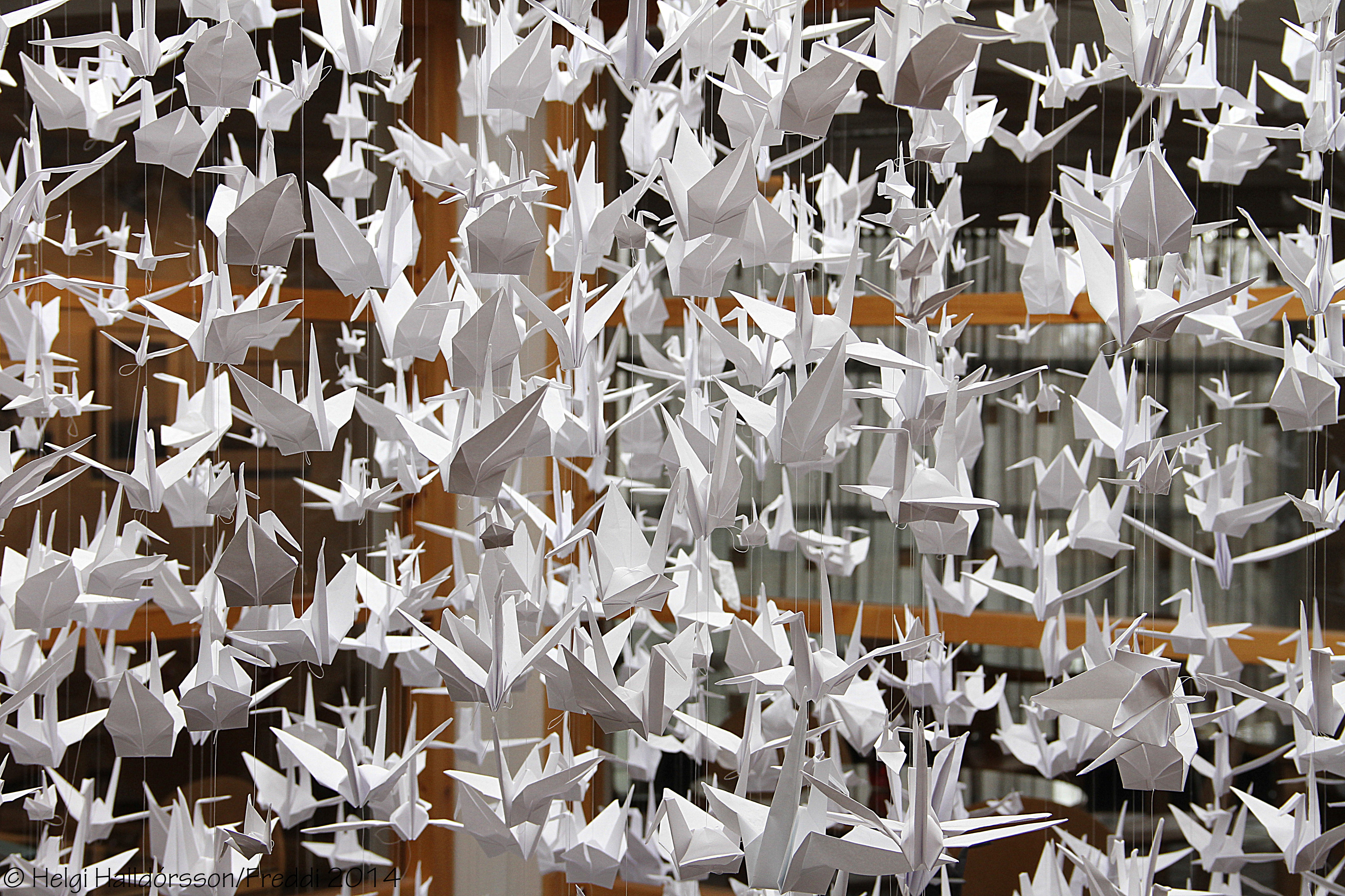 Origami (折り紙?, from ori meaning "folding", and kami meaning "paper" (kami changes to gami due to rendaku) is the traditional Japanese art of paper folding, which started in the 17th century AD at the latest and was popularized outside of Japan in the mid-1900s. It has since then evolved into a modern art form. The goal of this art is to transform a flat sheet of paper into a finished sculpture through folding and sculpting techniques, and as such the use of cuts or glue are not considered to be origami. Paper cutting and gluing is usually considered kirigami.